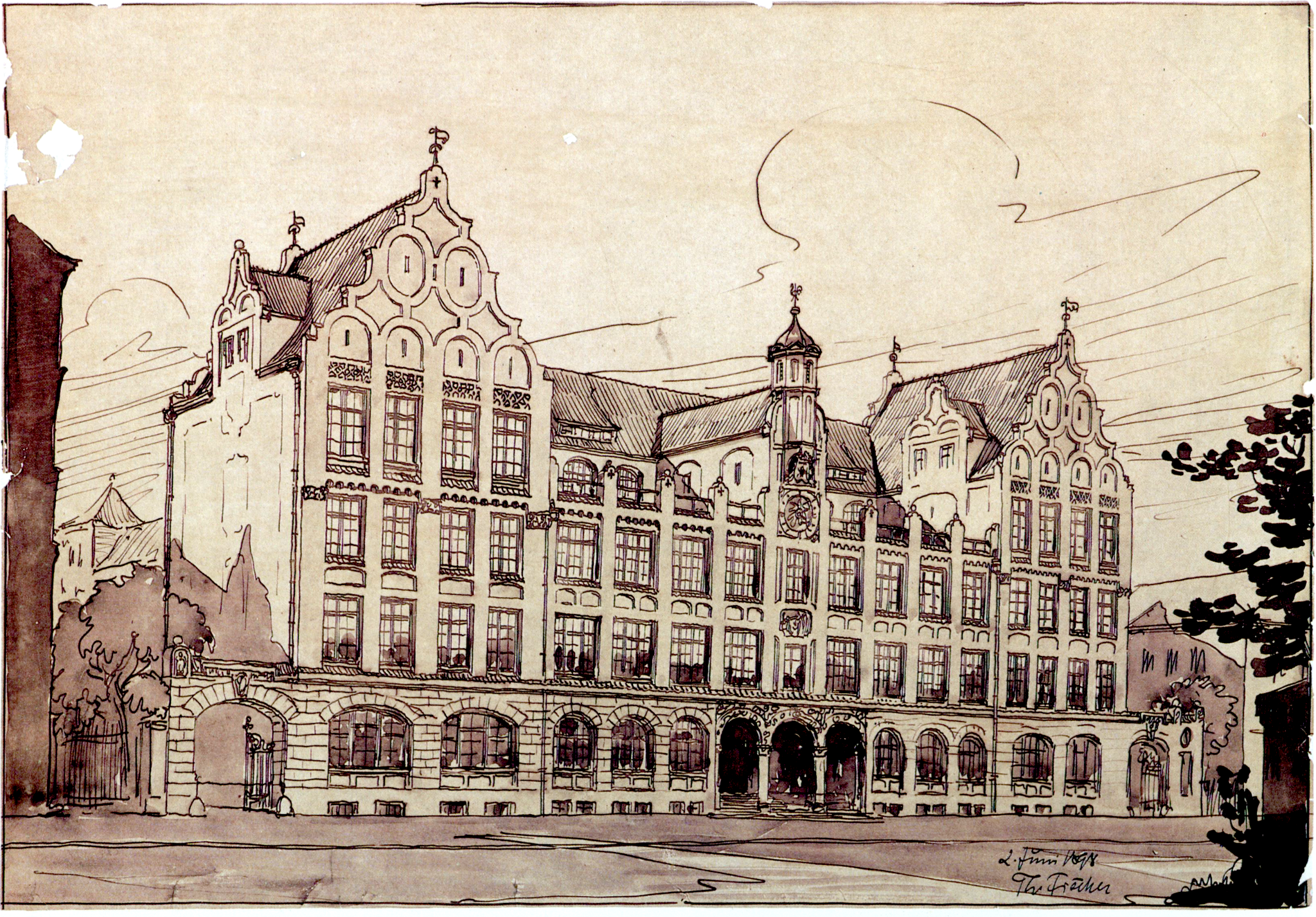 architectural drawing by Theodor Fischer. The drawing shows his design for the school in the Luisenstraße, Munich, Germany